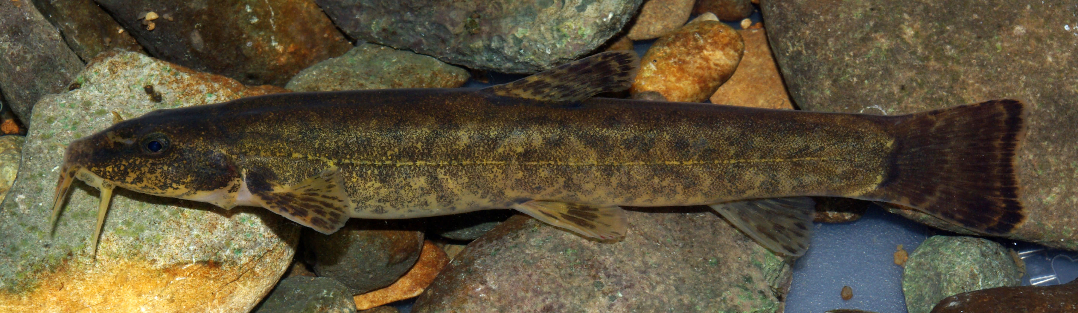 Languedoc Stone Loach (Barbatula quignardi). River Ebro, near Pesquera de Ebro, Burgos (Spain)